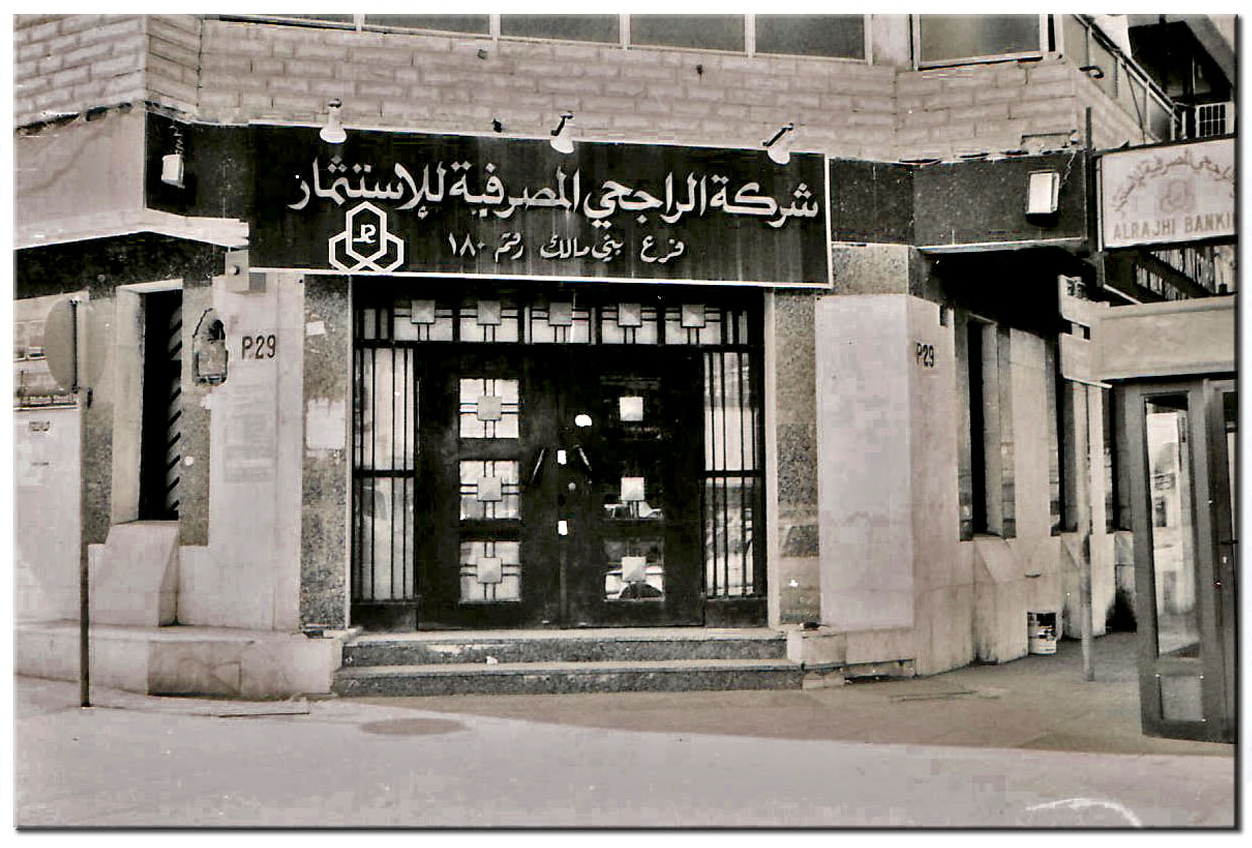 A picture of Al Rajhi bank back in 1985